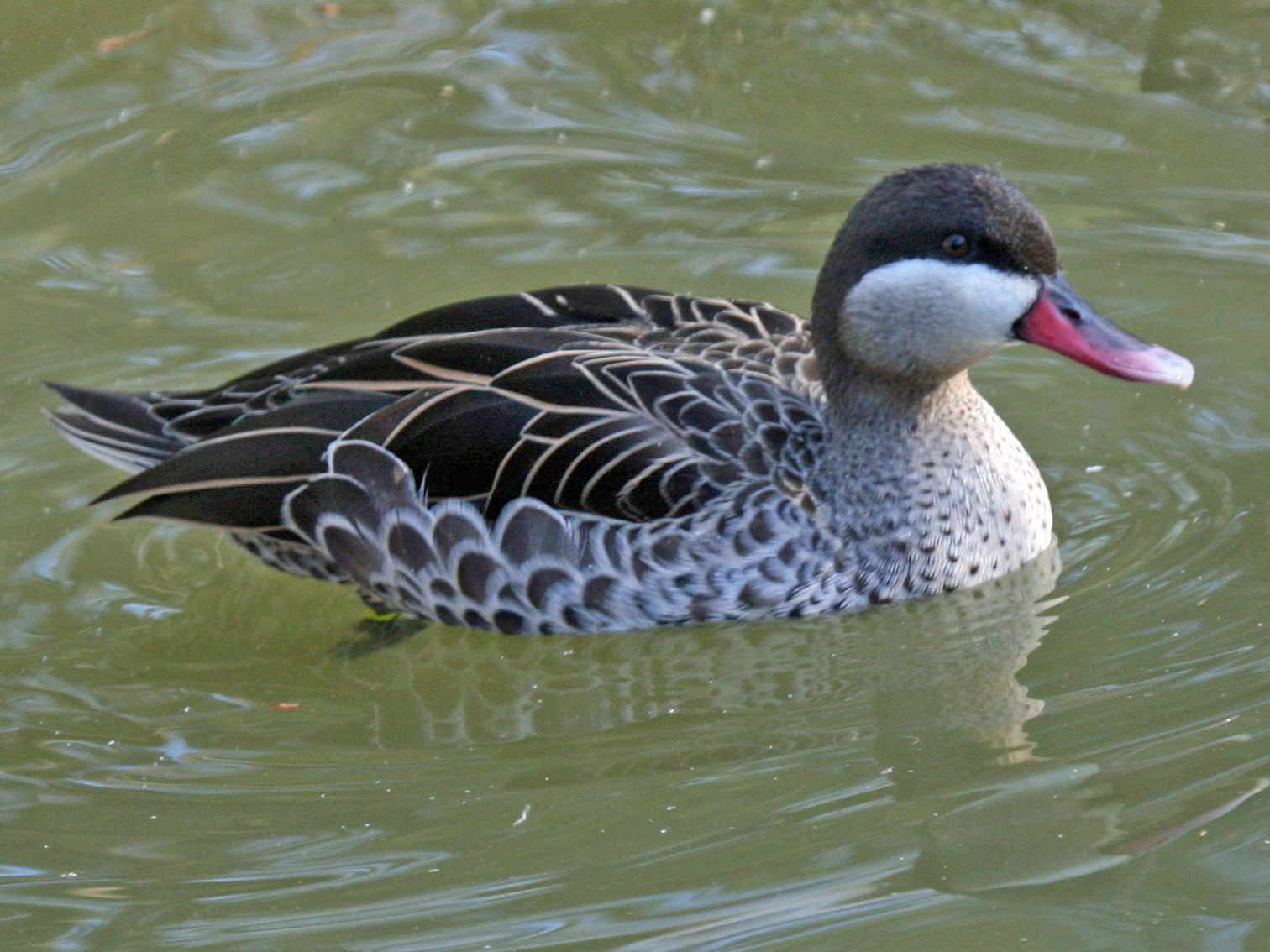 ♂ Red-billed Pintail (Anas erythrorhyncha) at Sylvan Heights Waterfowl Park in Scotland Neck, North Carolina.